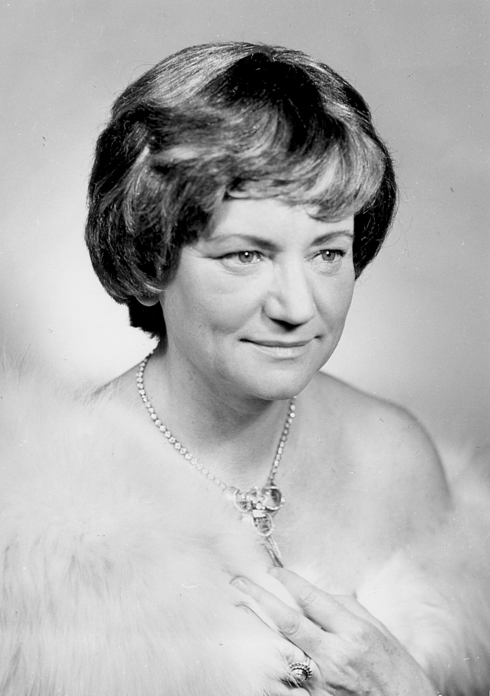 Stanislava Součková from 1972.